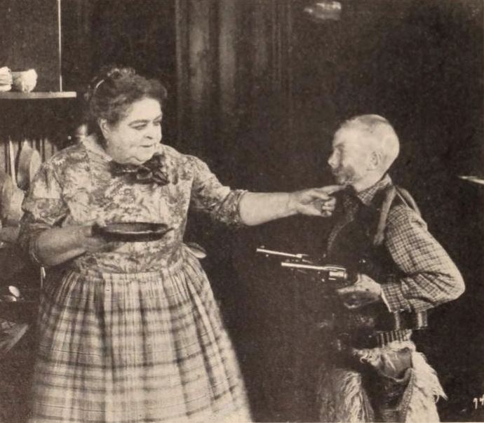 Still from the American silent western film Bob Hampton of Placer (1921) with Carrie Clark Ward and Wesley Barry, on page 82 of the March 5, 1921 Exhibitors Herald.